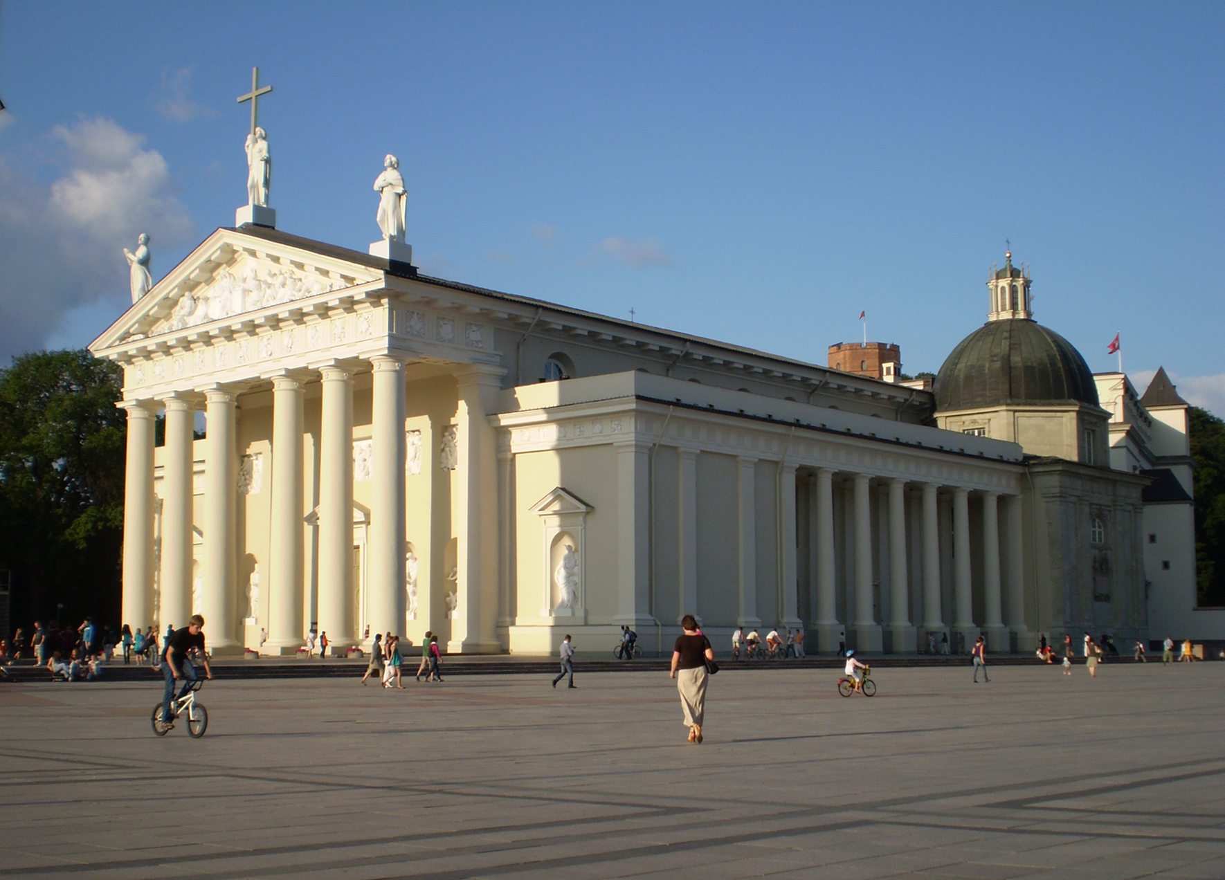 Vilnius Cathedral